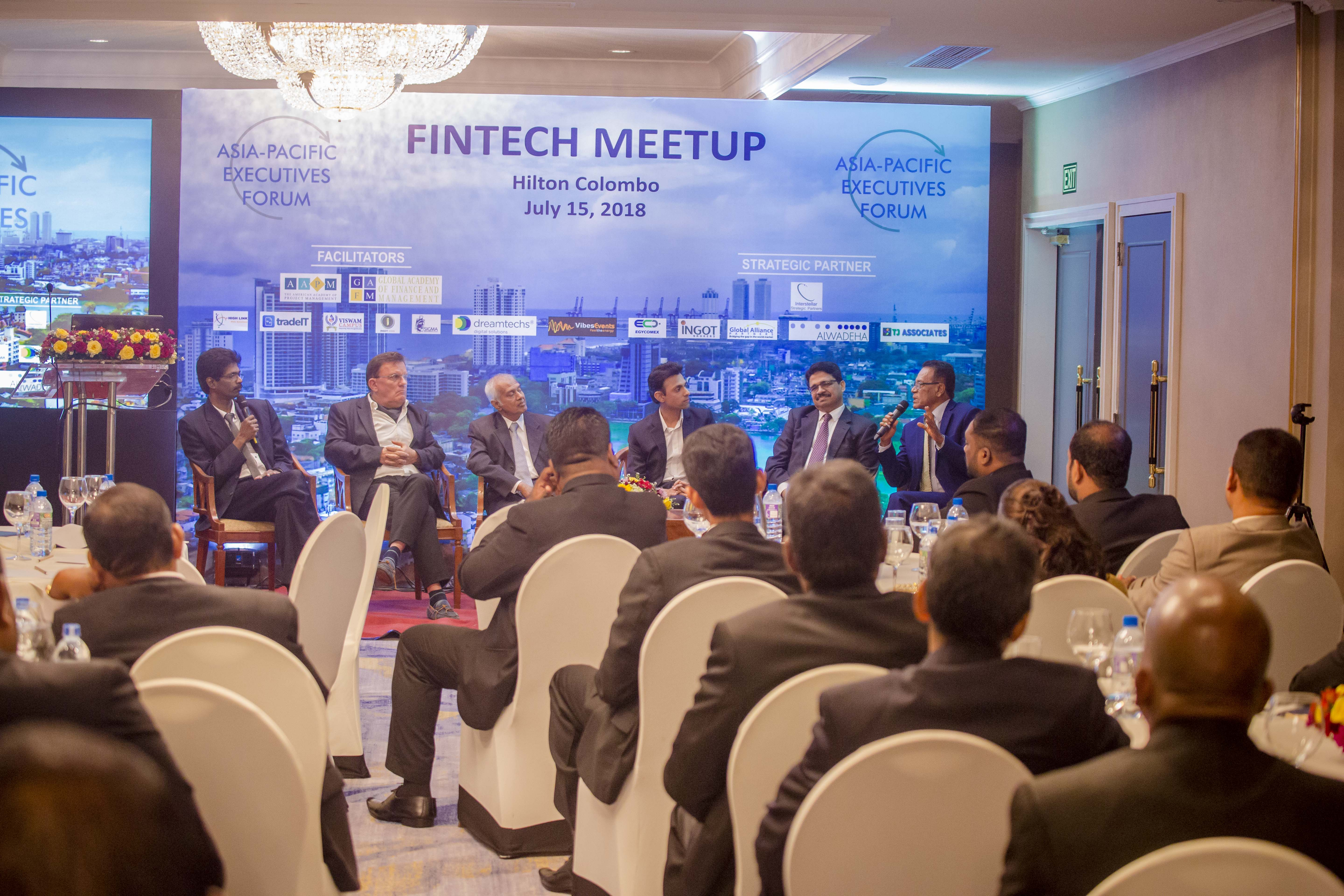 Fintech Meetup of the Asia-Pacific Executives Forum where the forming of the Fintech Association of Sri Lanka was initiated. Fintech Meetup of the Asia-Pacific Executives Forum held